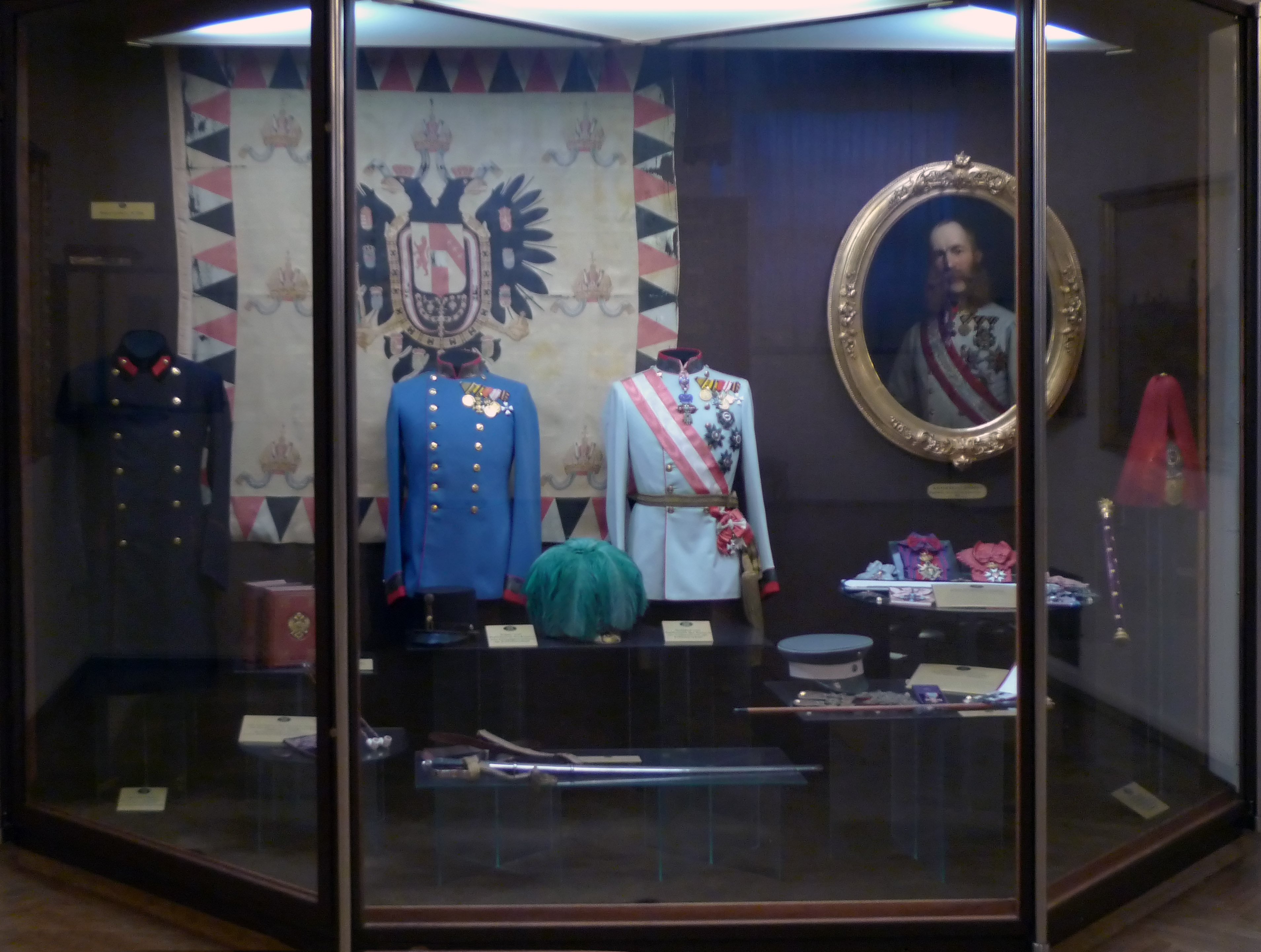 Showcase with items of Emperor Franz Joseph I of Austria. Heeresgeschichtliches Museum Wien.